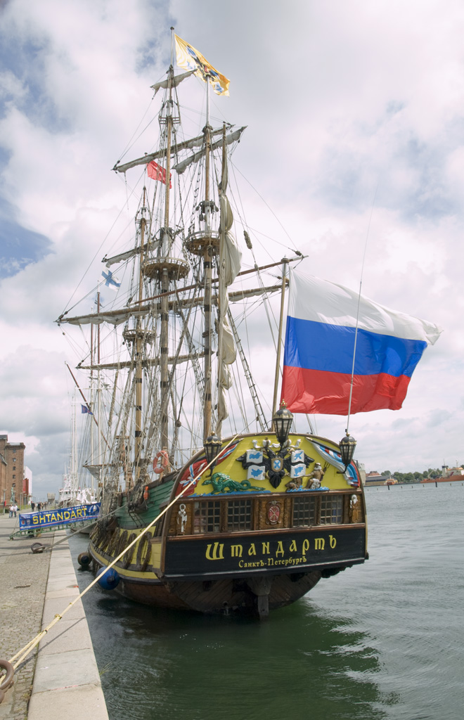 Russian sailing ship Shtandart of Saint Petersburg Taken in Copenhagen Habour